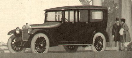 Oakland Motor Car Sensible Six Sedan, scanned from p. 24, Nov 24, 1917, "Collier's The National Weekly"